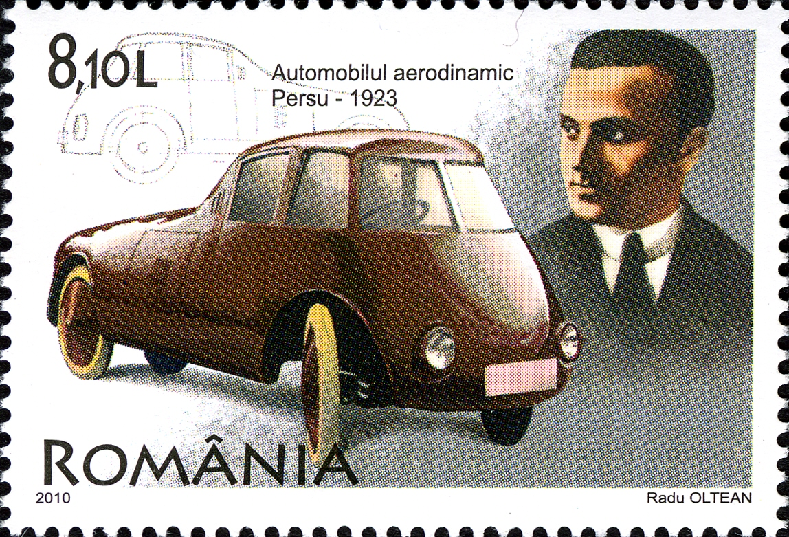 Stamps of Romania, 2010